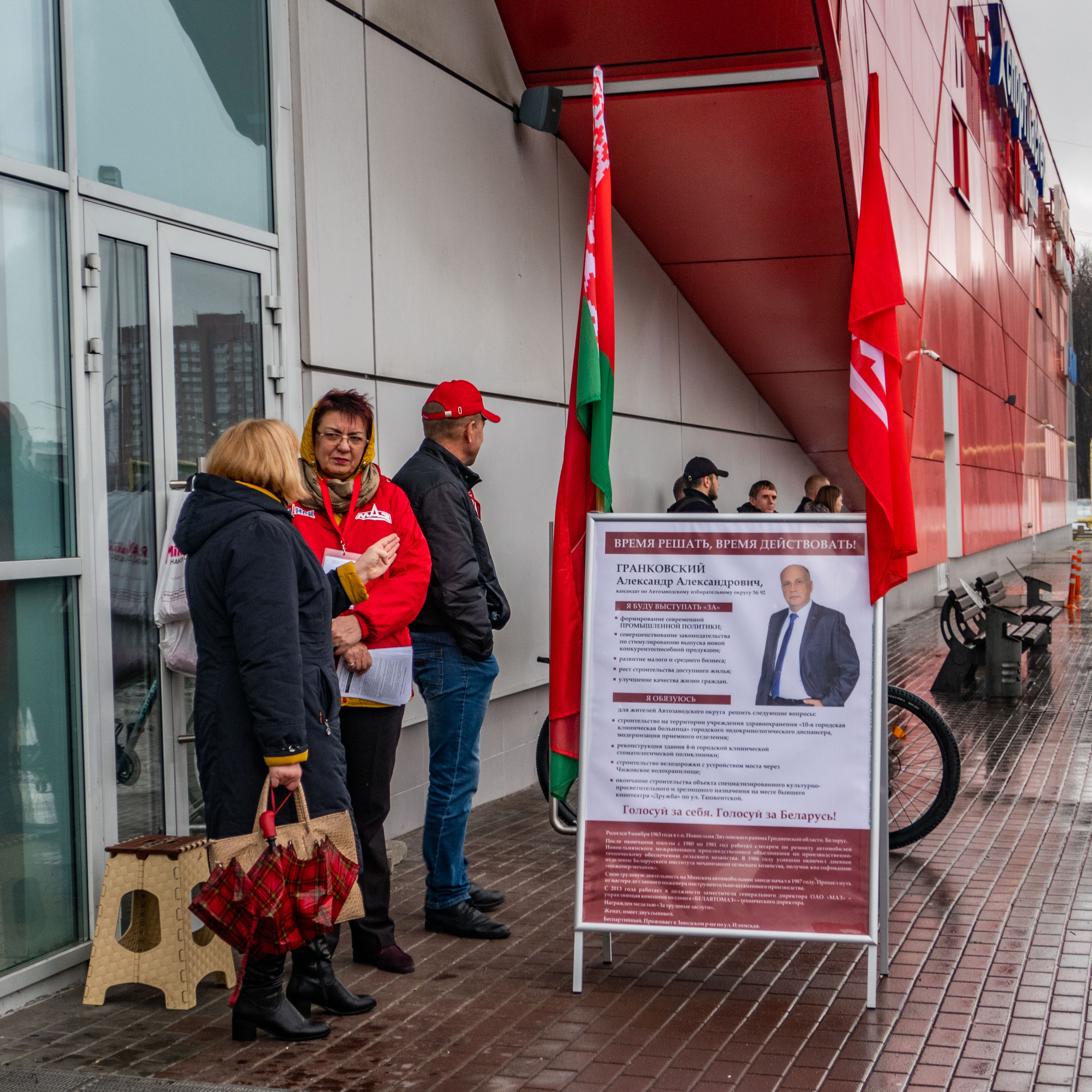 Street agitation before 2019 parliamentary election near the shopping mall. Minsk, Belarus